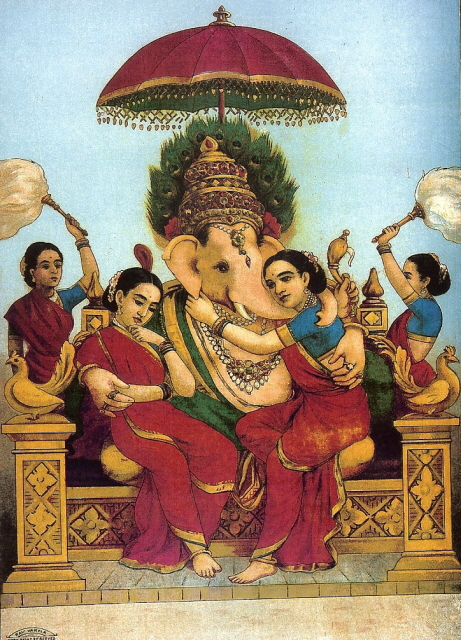 Ganapati with Riddhi and Siddhi. Printed at Ravi Varma Press, Malavli near Lonavala, Maharashtra.